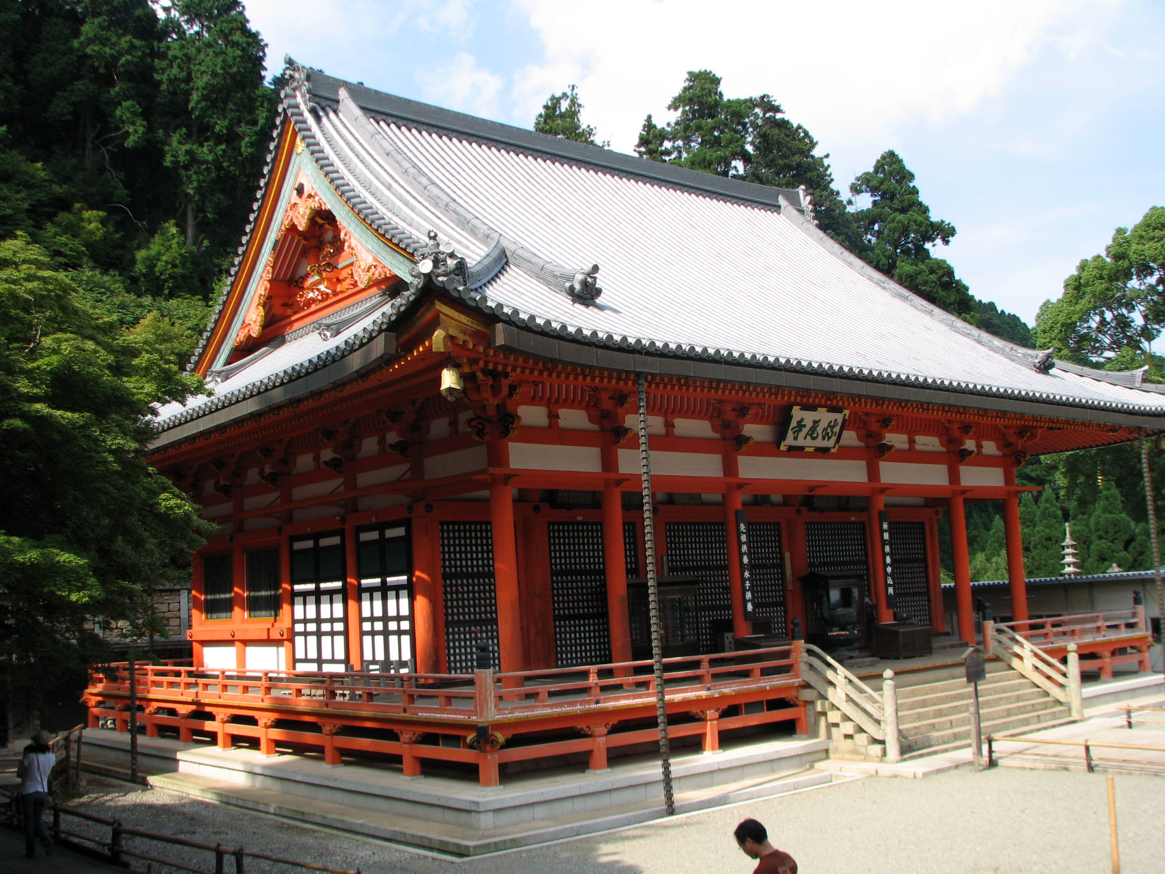 The main hall of Katsuo-ji.